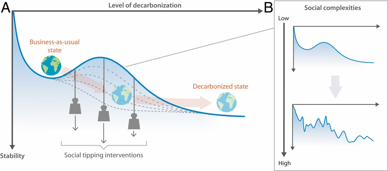 The concept of decarbonization transformation as social tipping dynamics. As illustrated in A by an abstract stability landscape (155), the world’s socioeconomic system today is trapped in a valley where it still depends heavily on burning fossil fuels, leading to high rates of greenhouse gas (GHG) emissions. STIs have the potential to erode the barrier through triggering social tipping dynamics in different sectors (Fig. 3) and thus paving the way for rapid transformative change. Uncertainties and complexities inherent in the many dimensions of human societies beyond their level of decarbonization (46) can be envisioned as forming a rougher stability landscape featuring multiple attracting states and a larger number of barriers that need to be eroded or overcome (B). This inherent “social noise” may complicate transformative change but could also accelerate it by means of dynamical phenomena such as stochastic resonance (156).